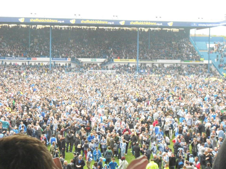 Pitch invasion at Hillsborough 5/5/12